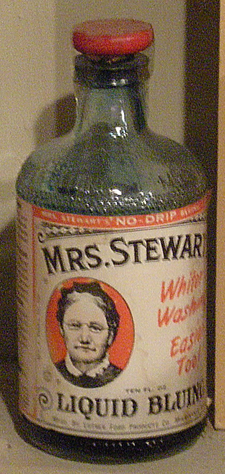 Mrs. Stewart's Bluing, photographed at Edmonds Historical Museum.